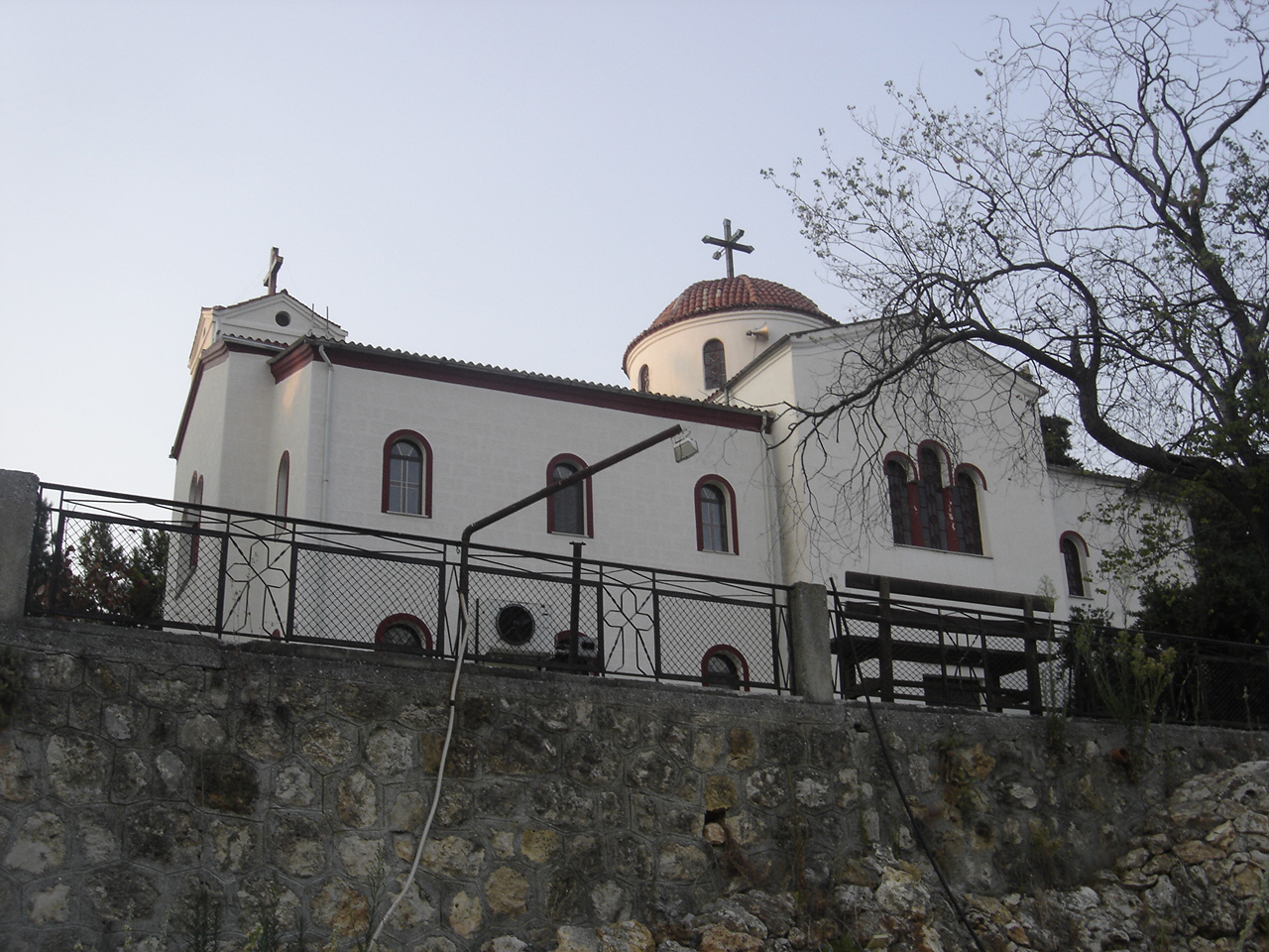 Church of Timios Prodromos in Nea Efessos.